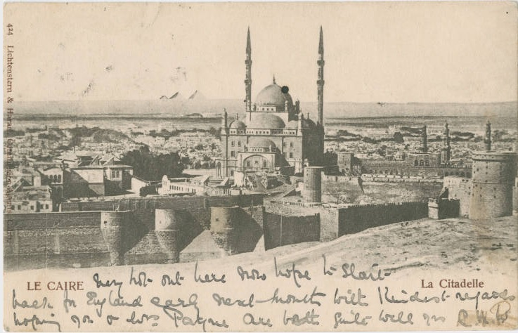 Postcard showing the Cairo Citadel and Muhammed Ali Mosque